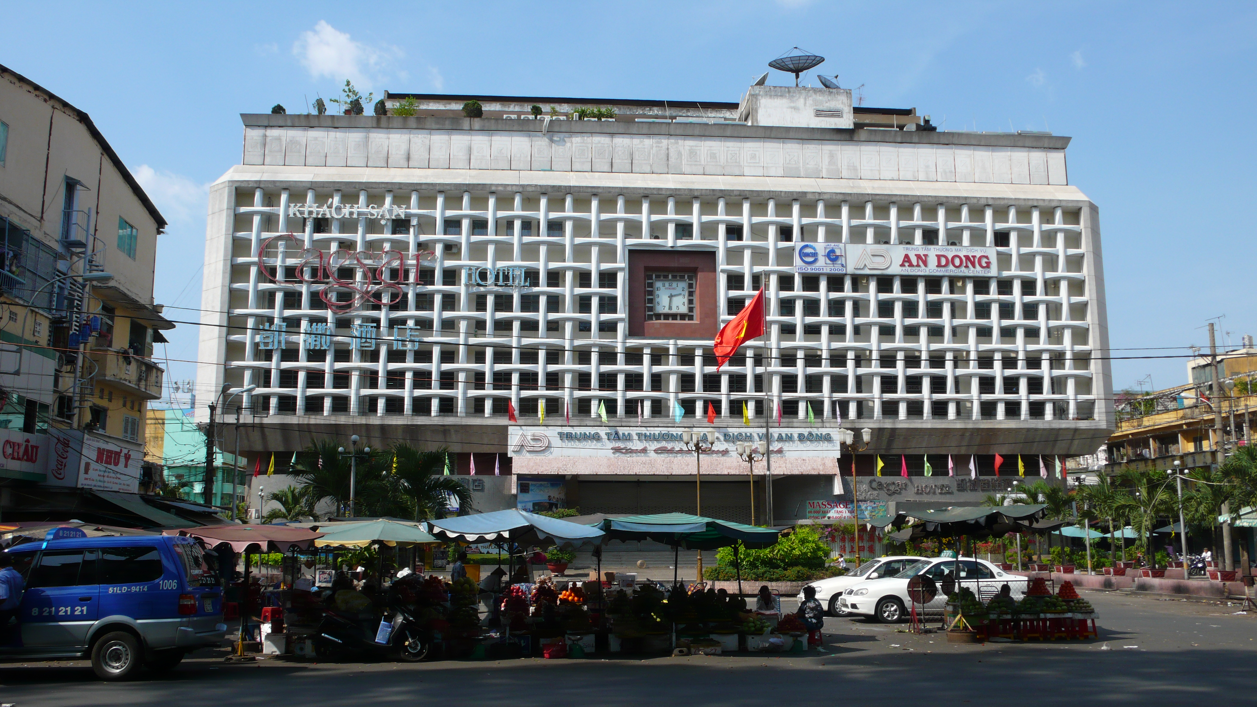 A pretty unique design to this building. It seems as though the Vietnamese really enjoy making square buildings with lots of lines.